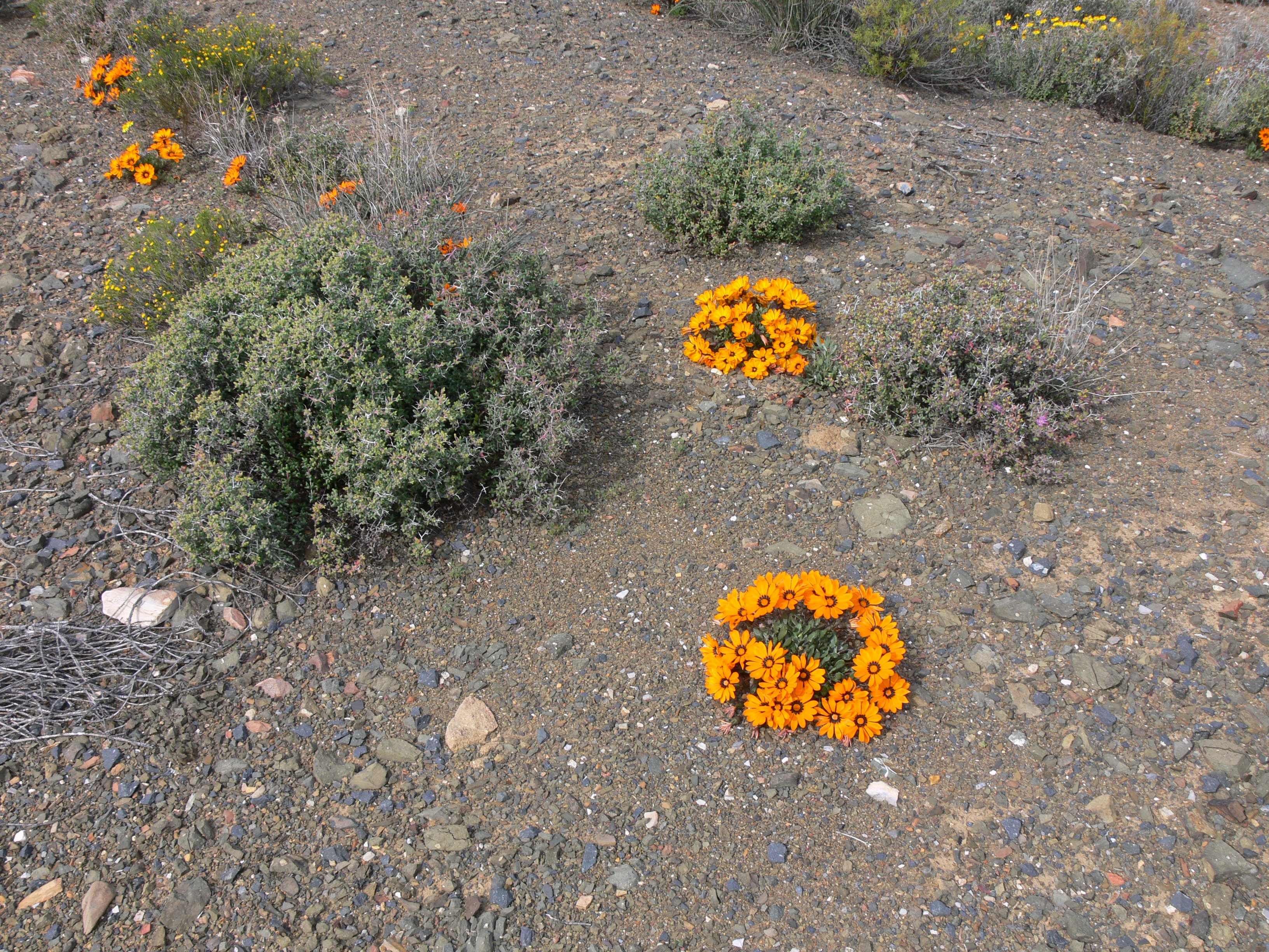 flowering Karoo, near the Highway N1 between Laingsburg and Prince Albert Road Western Cape, South Africa